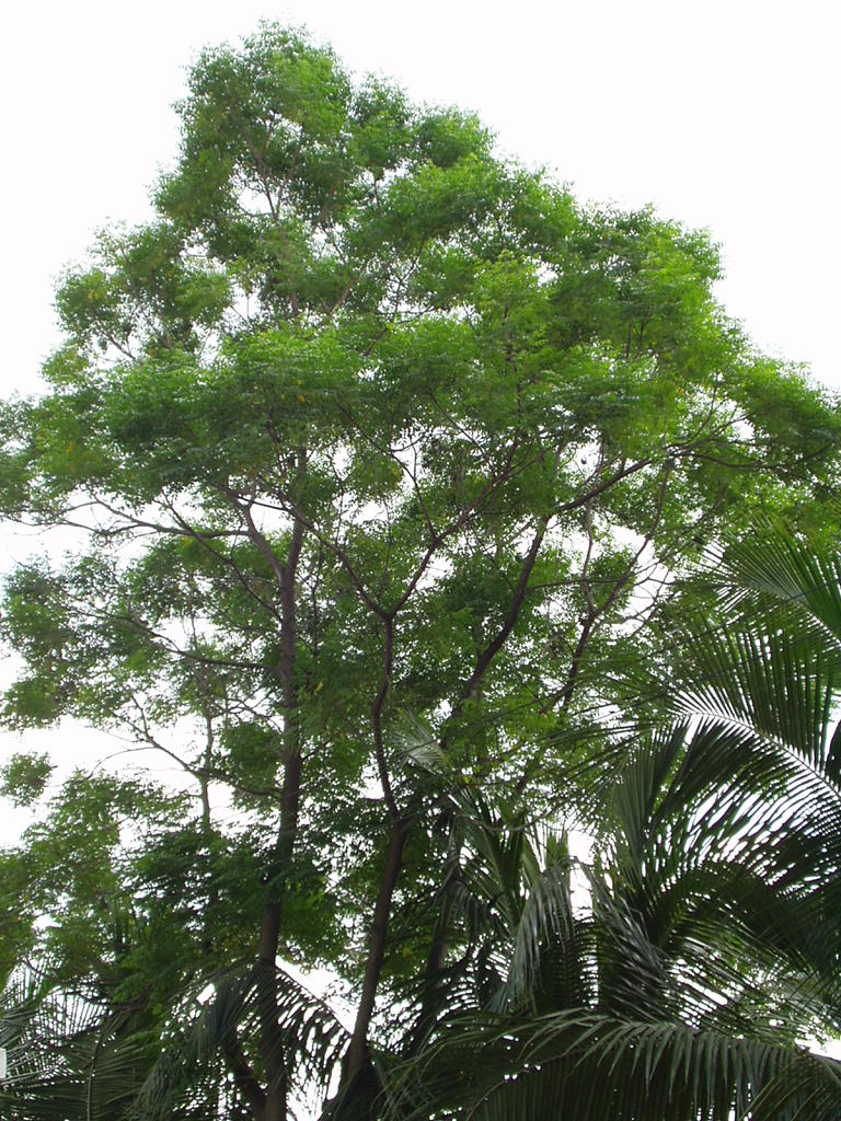 neem tree.--Mamun2a 09:44, 16 September 2006 (UTC)